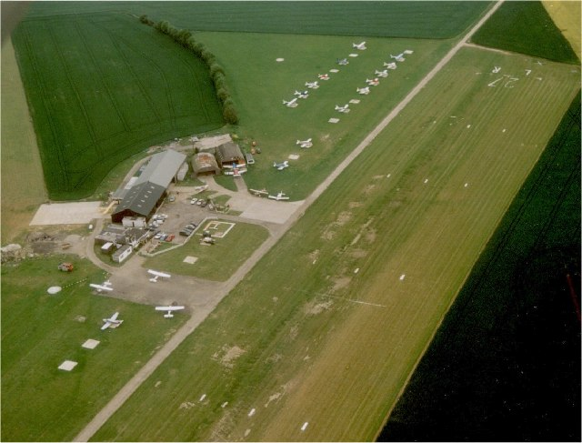 Andrewsfield Airport Original description: Andrewsfield from the air Andrewsfield Flying Club seen from 800ft on the Crosswind leg of a circuit to land. The aircraft - Cessna 152 G-BHHI - will touch down on runway 27, (numbers visible top rh corner).